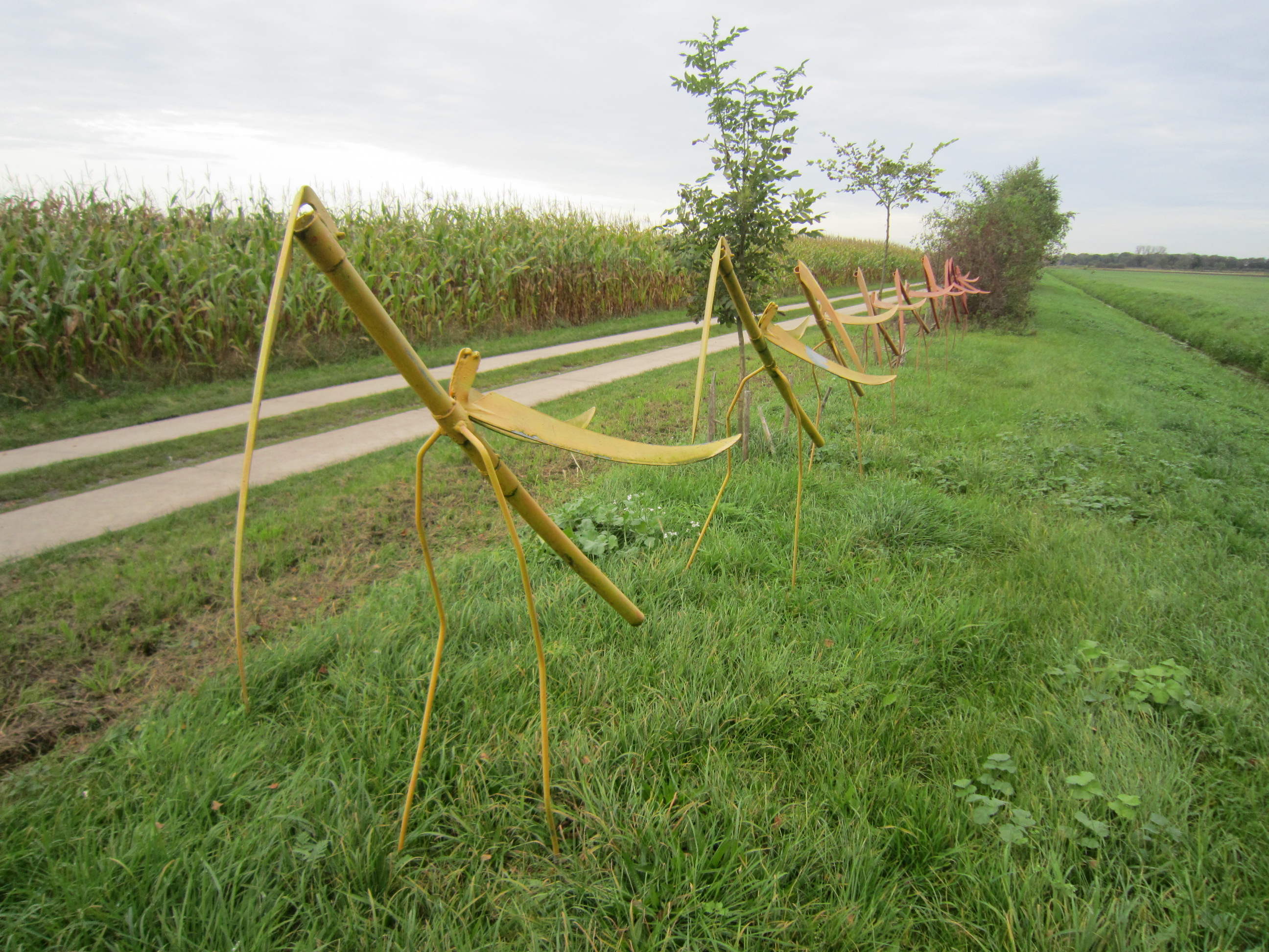 Metal sculpture "Scythe Birds" by Wolfgang Buntrock and Frank Nordiek at the sculpture walk "Diepholz | Dümmer"; on the right side Wätering Creek